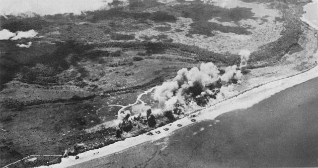 Photo of the Mokmer Airdrome under heavy air attack. This image is of free use, because 70 years transcurred since the snapshot in Mai 1944. The image is on Ibiblio-Hyperwar, a US-Website that offers information and public use images over the campaigns in World War II. The image is the only free photo of the aerial attack of Mai 27, 1944